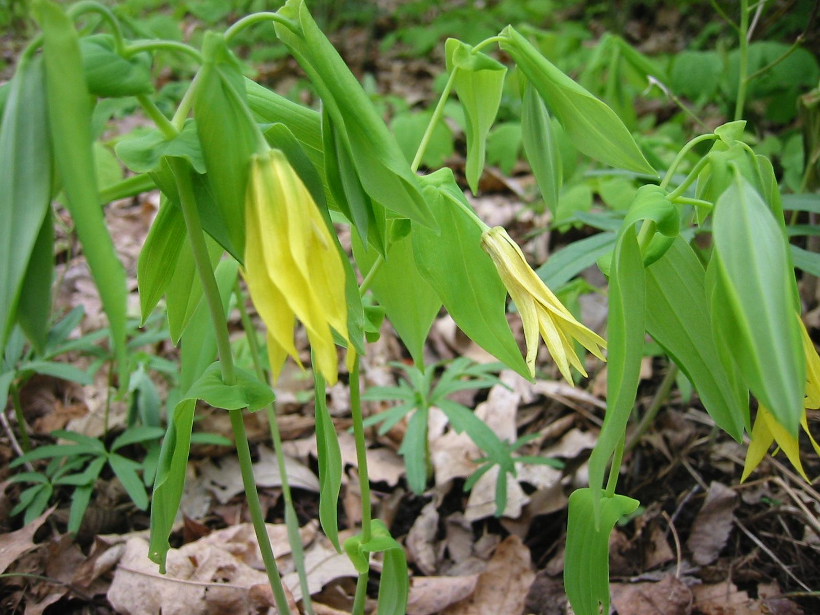 Uvularia grandiflora Bellwort or Big Merry Bells found growing on the trails at University of Michigan Matthaei Botanical Gardens.